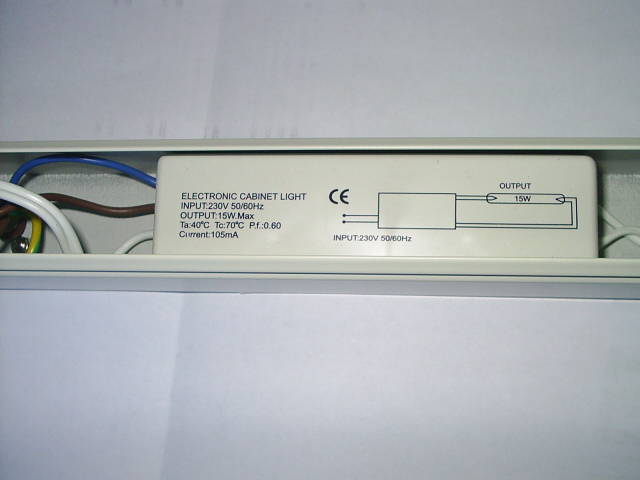 Electronic ballast for 15W